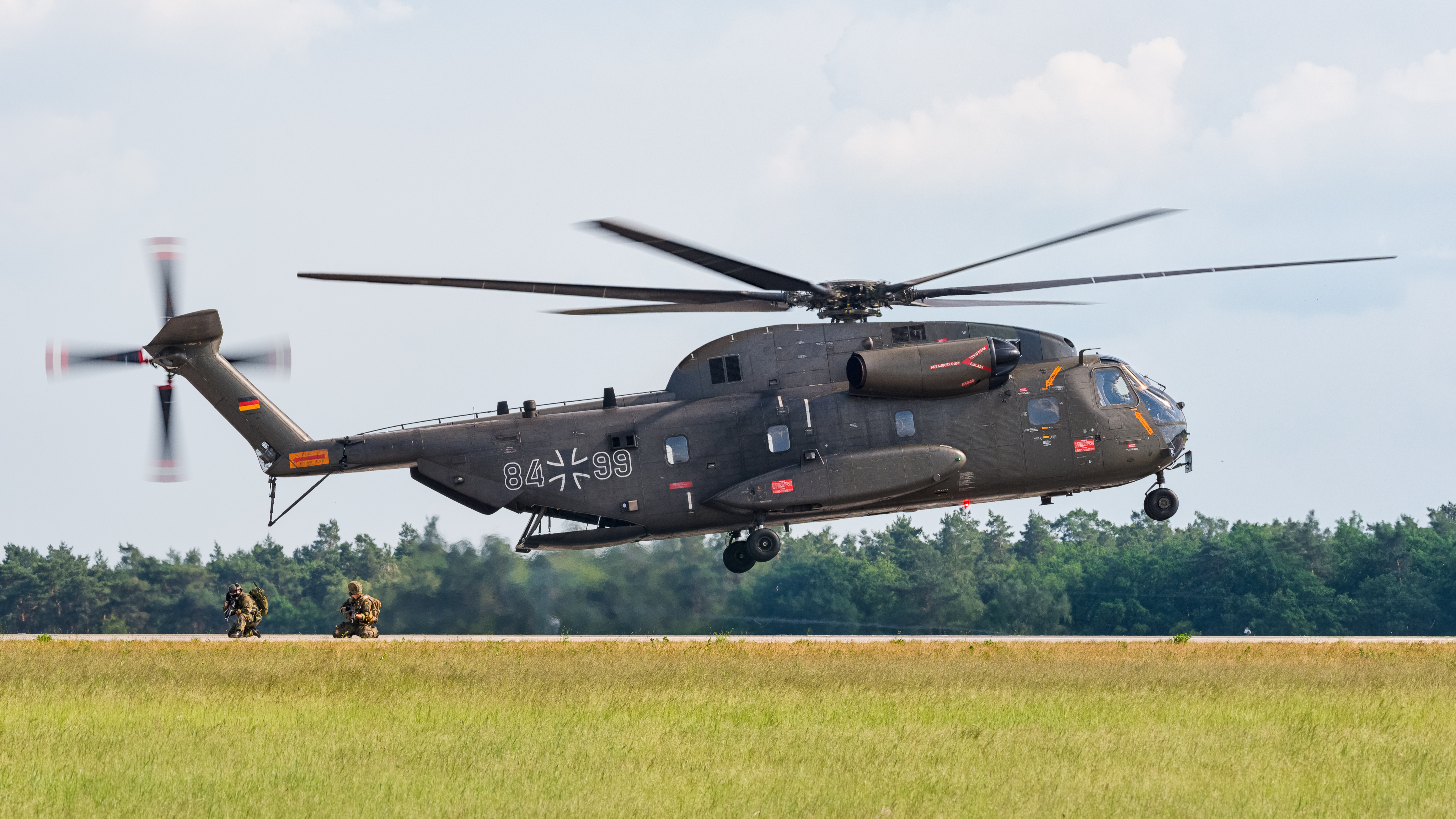 German Army Sikorsky CH-53G Super Stallion (reg. 84+99, sn V65-97) at ILA Berlin Air Show 2016.